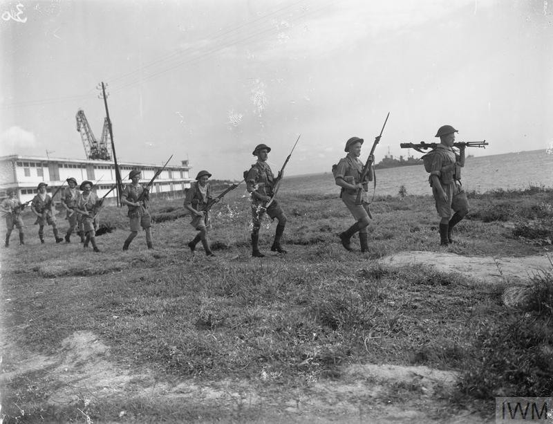 Troops advancing along the coast of Madagascar 1942 during the invasion of the Vichy held territory